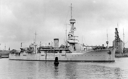 Danish training ship Niels Juel before her modernization in 1936